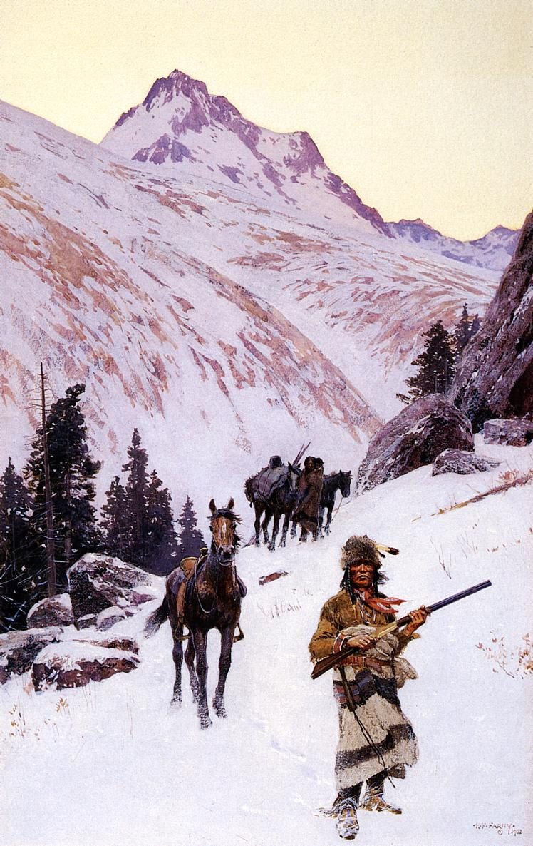 Indian Family Winter Move